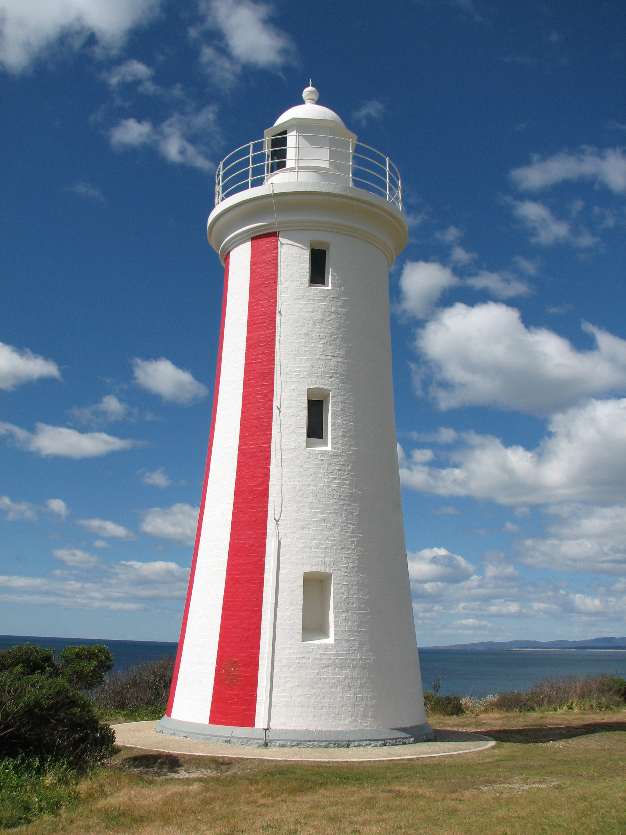 Devonport Lighthouse